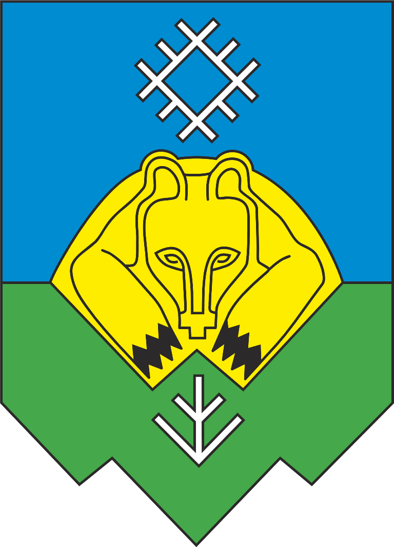 Syktyvkar (Komi), coat of arms (2005)